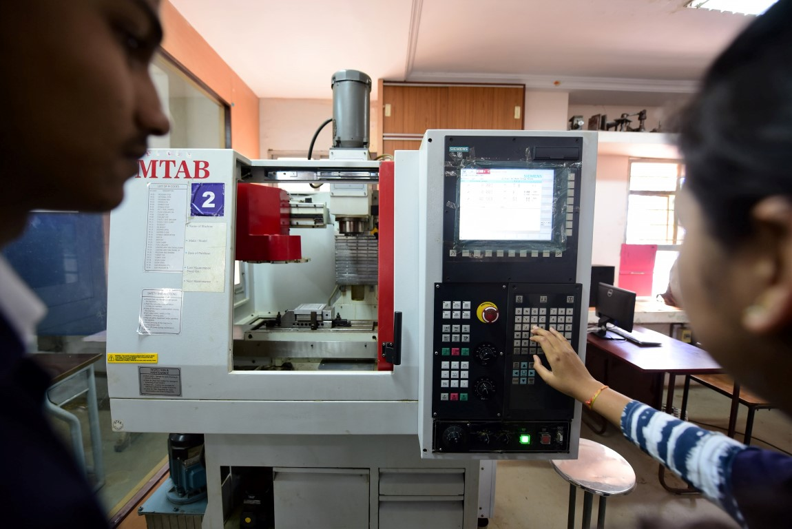 this is an image of the machine shop